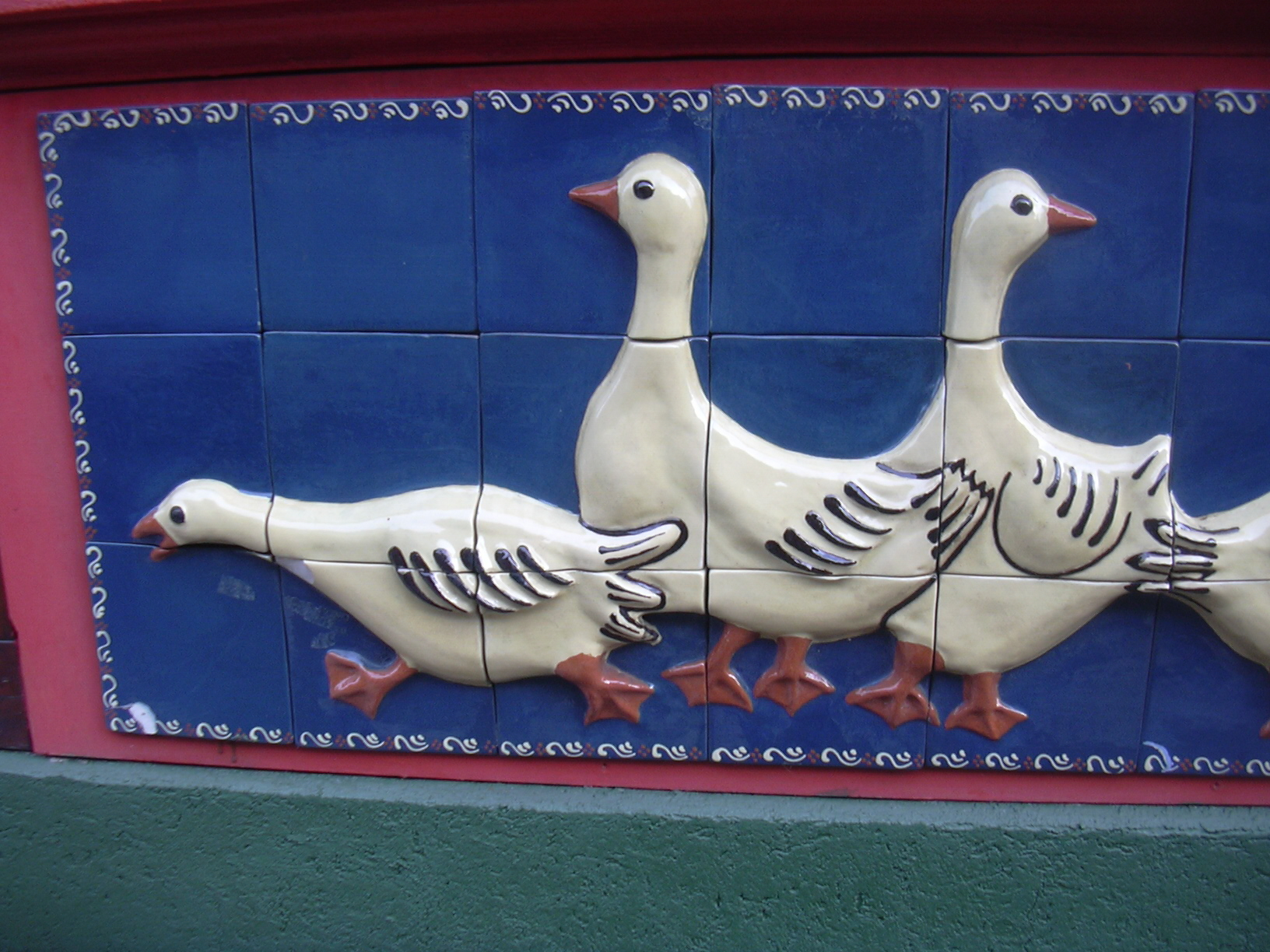 Typical pottery at the front of a building, in Soufflenheim (Bas-Rhin, Alsace, France).